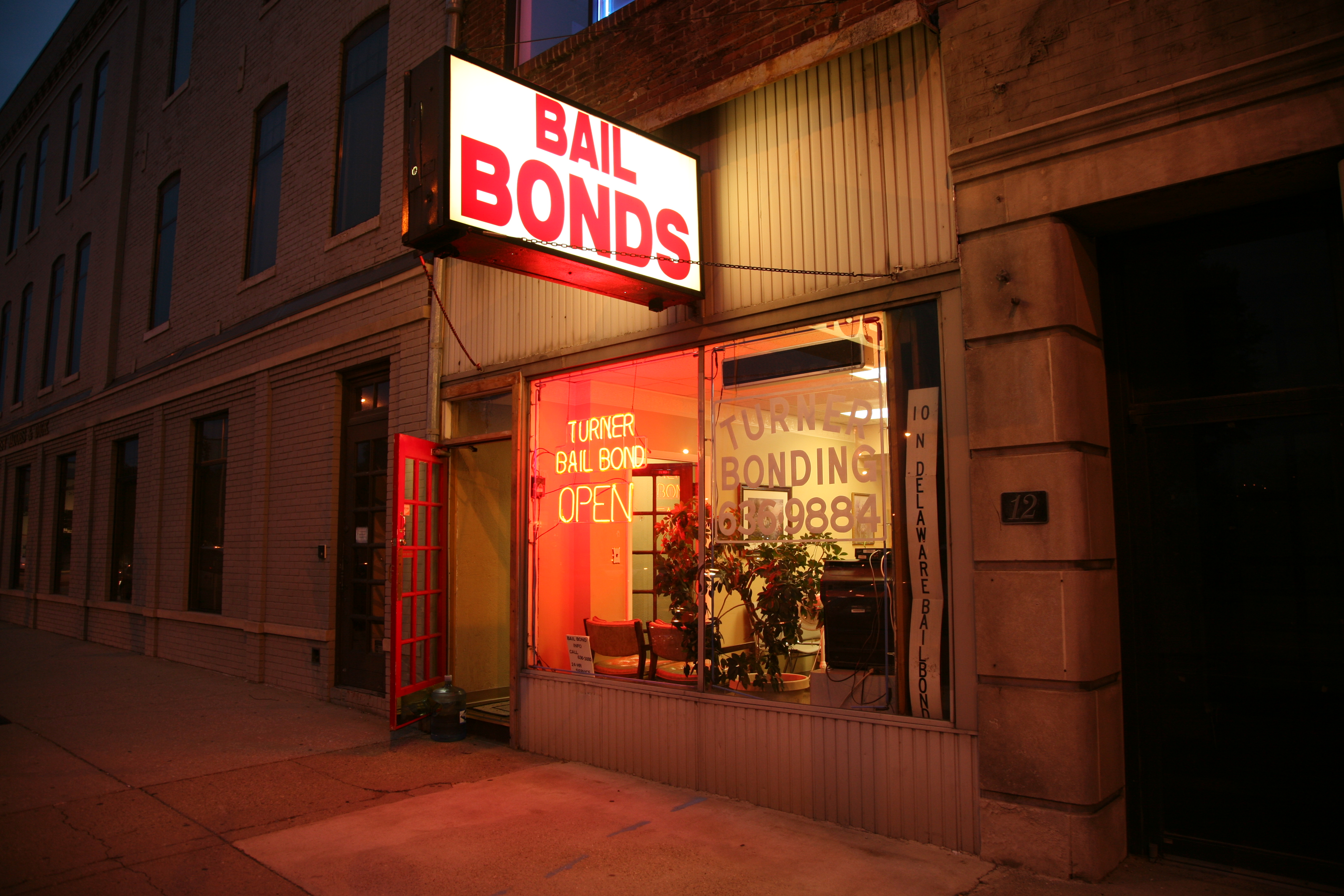 Bail Bond agency in Indianapolis